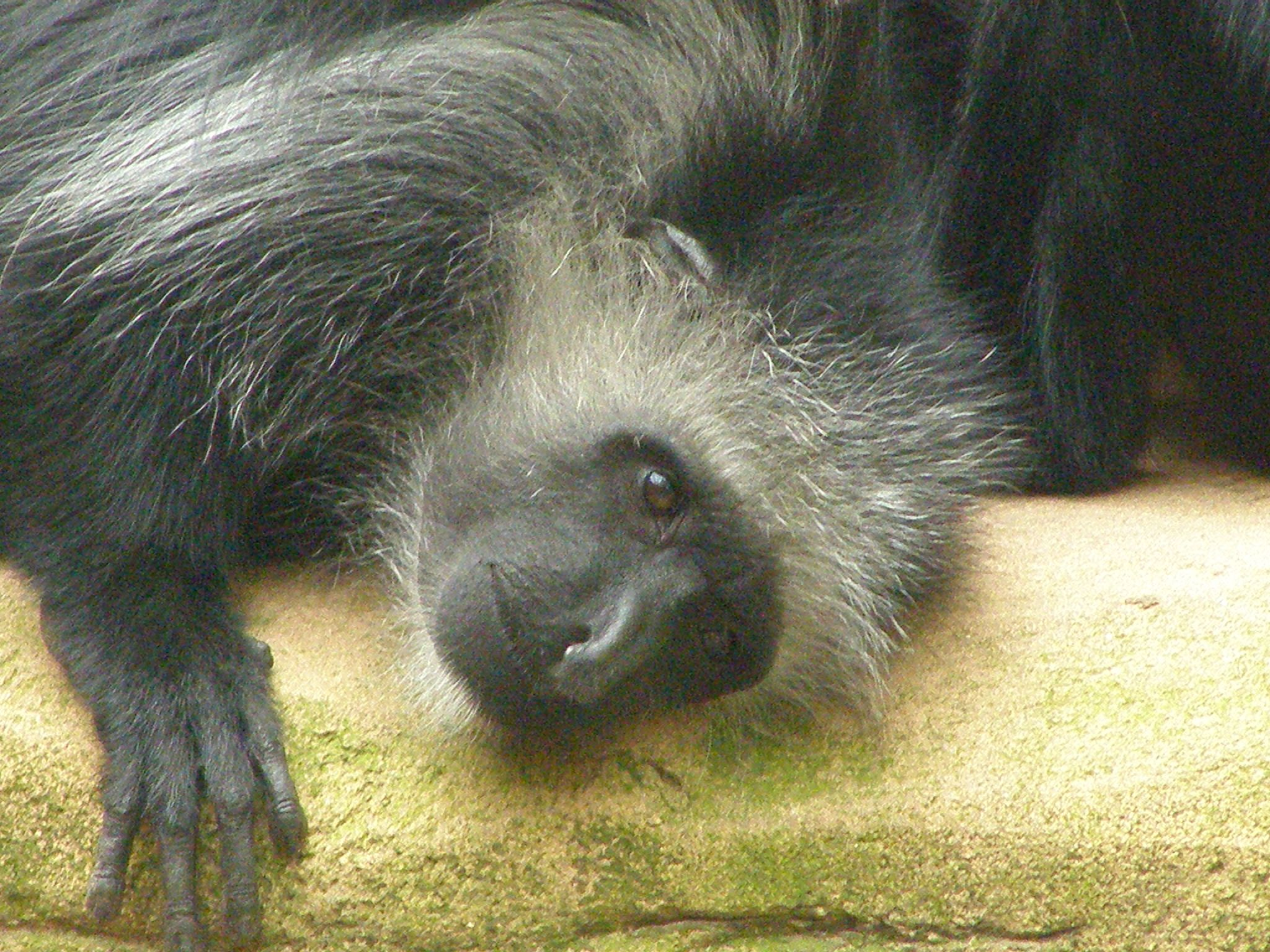 King Colobus, at Duisburg Zoo, Germany